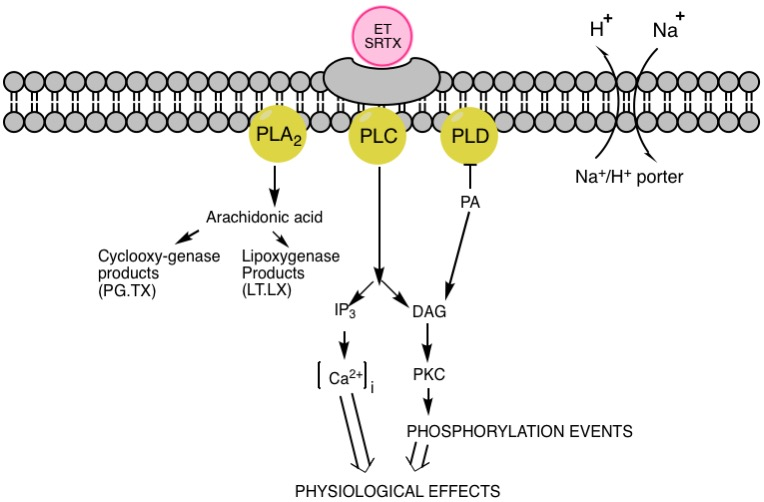 This is an schematic representation of the Sarafotoxin and Endothelin pathway.